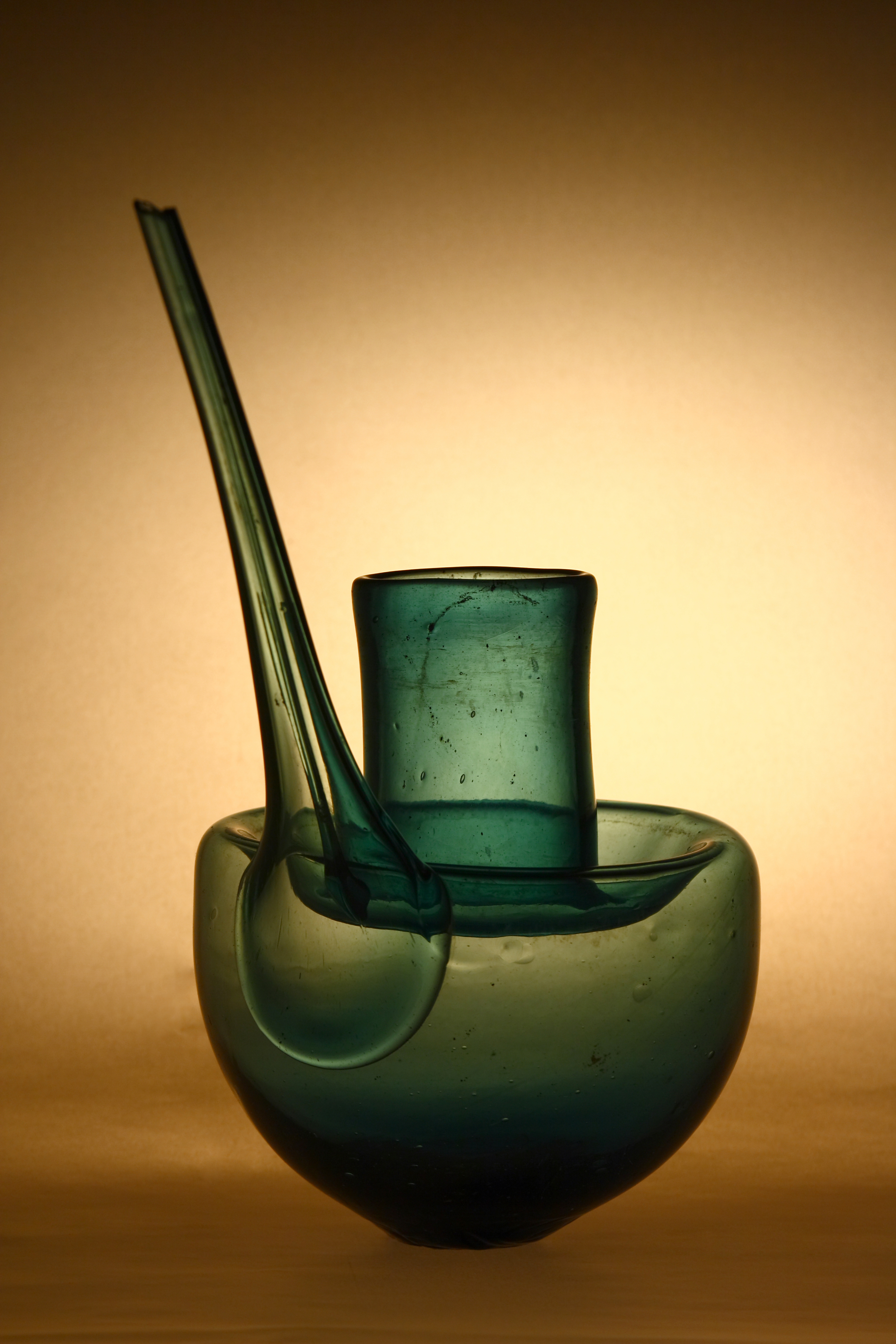 Anbig (Alembic) 13 century - Made in Tabriz.